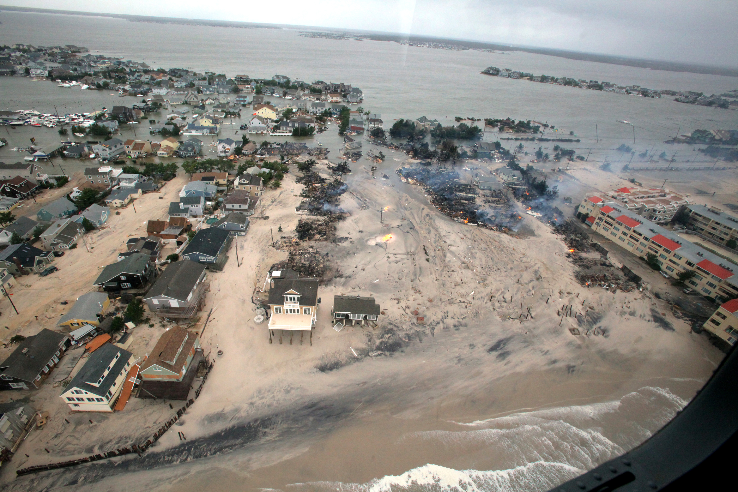 Aerial views during an Army search and rescue mission show damage from Hurricane Sandy to the New Jersey coast, Oct. 30, 2012.